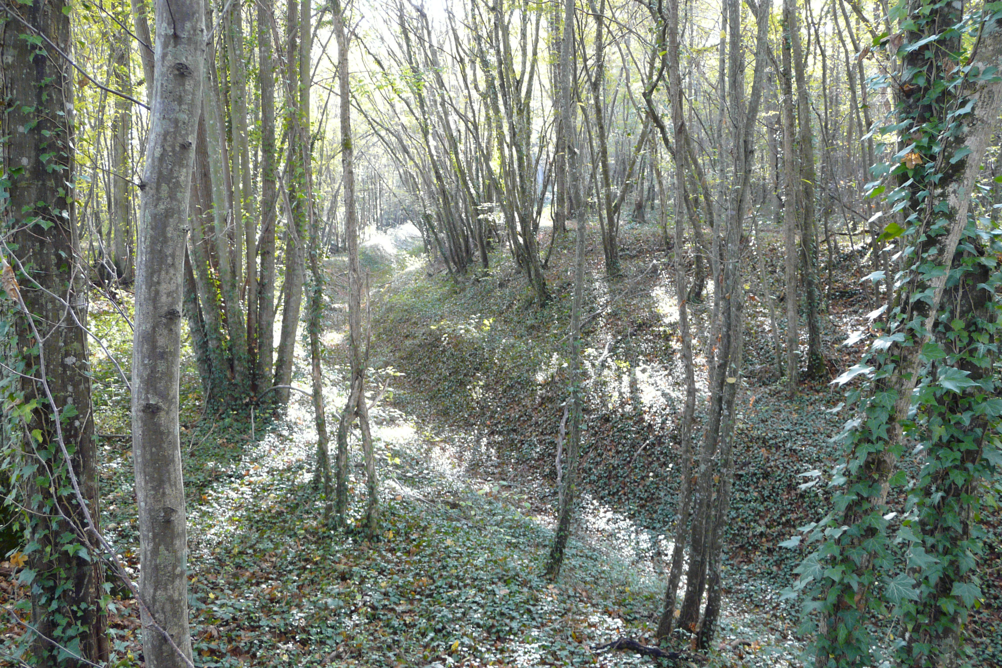 The bed of an abandoned branch of canal de Briare, south of Rogny-Sept-Ecluses, France